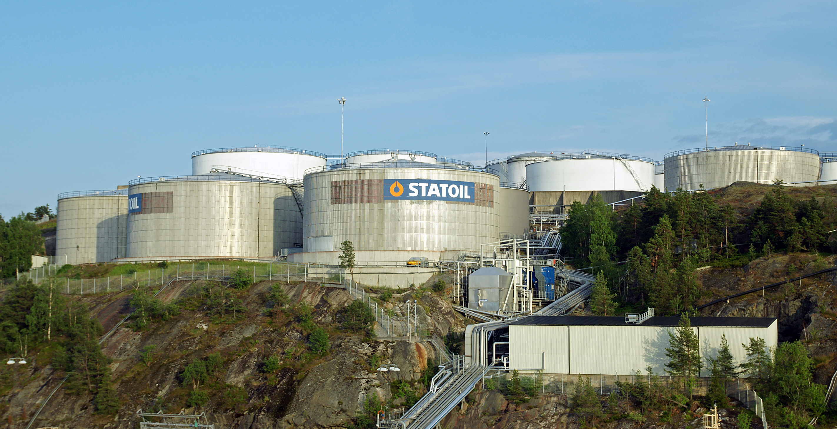 Statoil Oil Terminal near Stockholm.